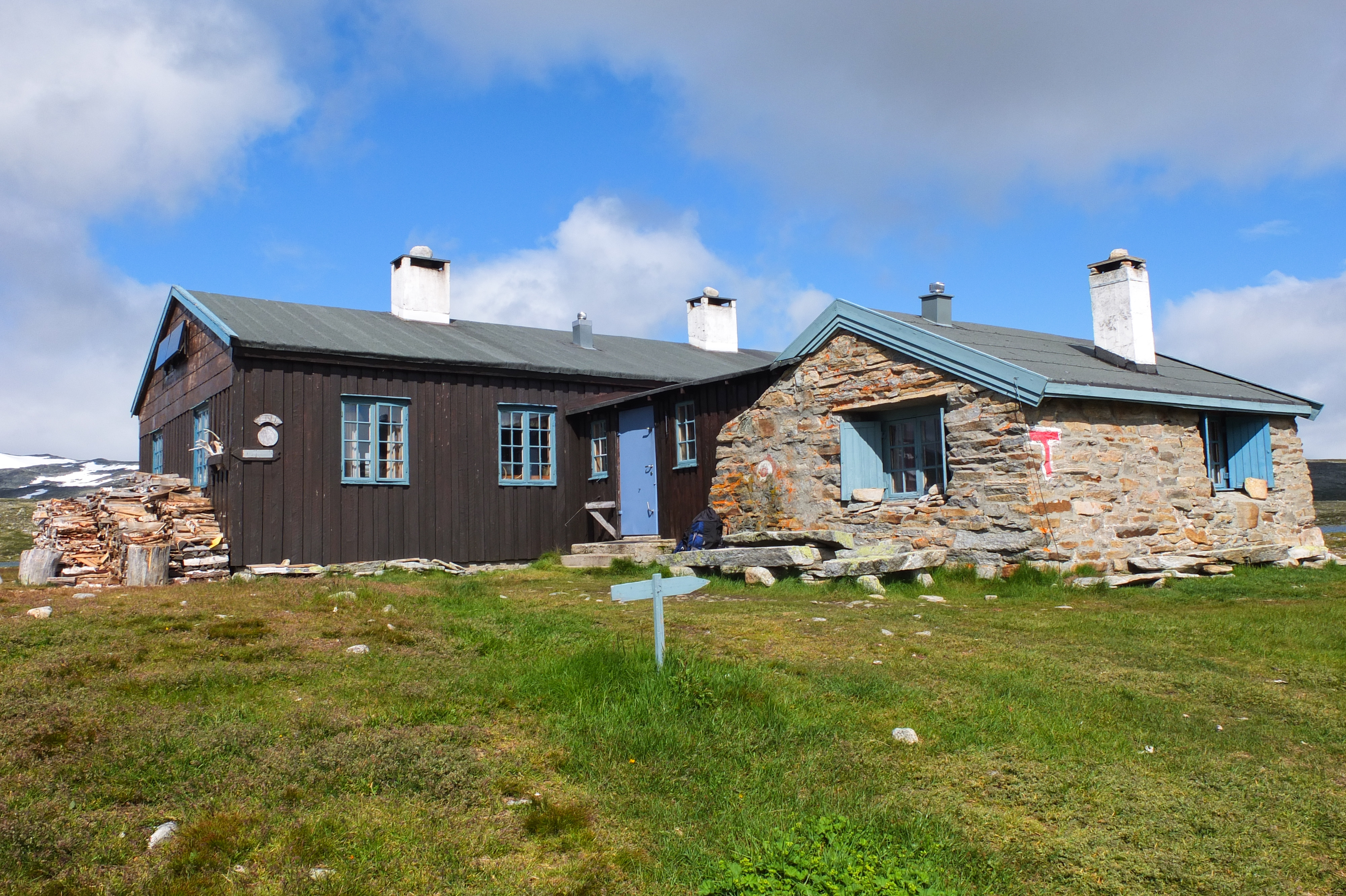 Åmotdalshytta, a self-service cabin owned by Den Norske Turistforening and located at the shore of Åmotdalsvatnet, north-west of Snøhetta. The stone cabin in the front was raised in 1922, and the larger tree cabin was raised in 1953 and renovated in 1980.